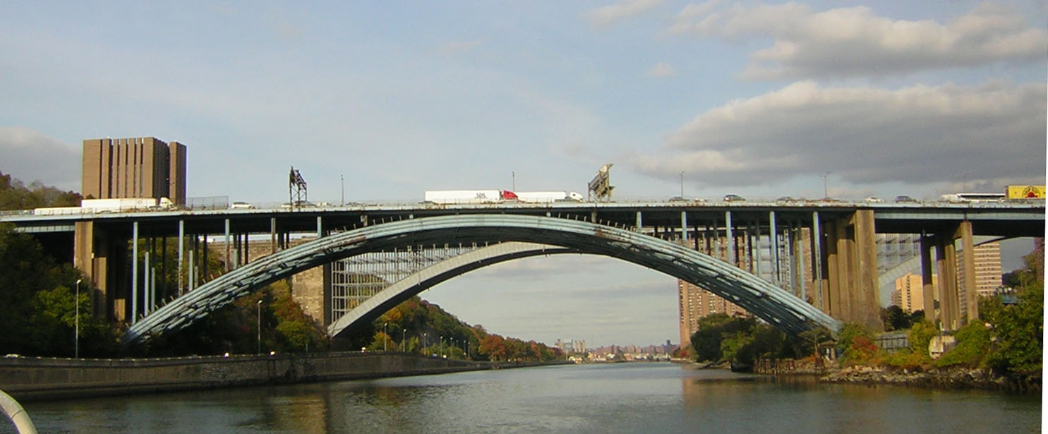 Alexander Hamilton Bridge, from a Circle Line boat approaching from the south, showing truck traffic